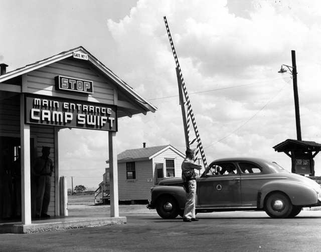 View of the Main Entrance at Camp Swift Texas, August 6, 1944. A military police man allows a Bell Telephone car to pass through gate number one. A small building and the other part of the gate is in the background. The Tenth Mountain Division was stationed here for "flatland" training in 1944 and 1945.